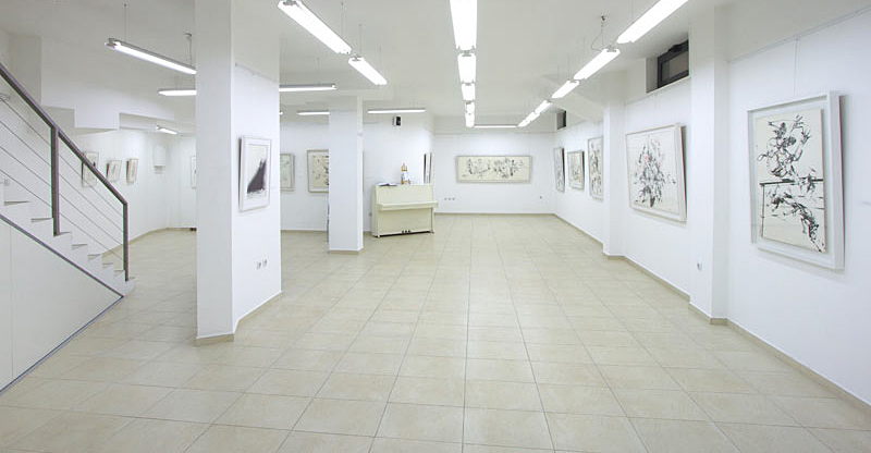 Gallery art55, Niš, Serbia.